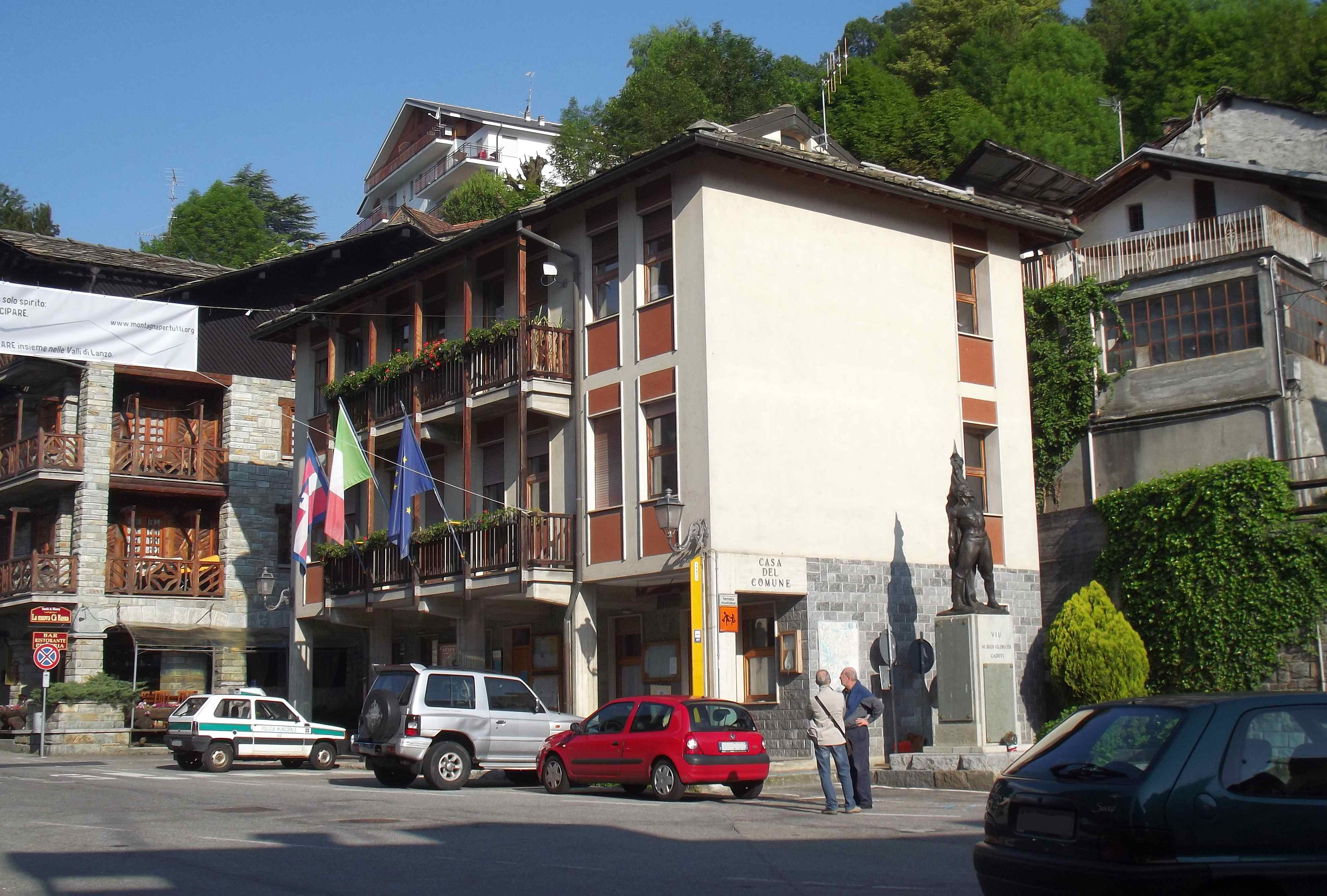 Viù (TO, Italy): town hall